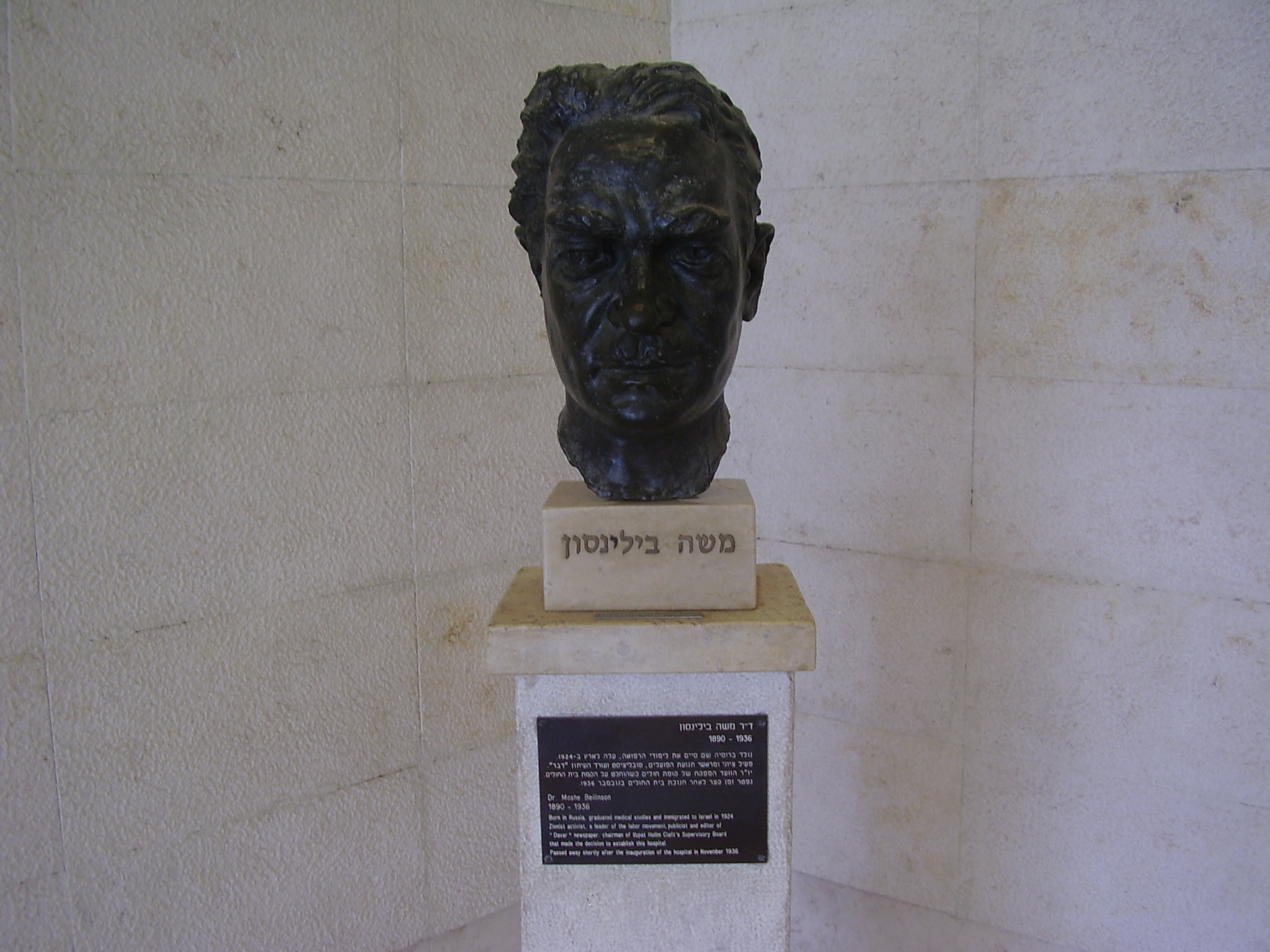 dr. moshe beilinson sculpture by batia lychansky, in beilinson hospital, petah tikva, israel פסל של ד"ר משה בילינסון מעשה ידיה של בתיה לישנסקי, בבי"ח בילינסון